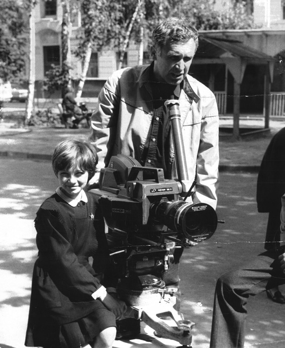 Yefim Galperin on the set of one of his films.